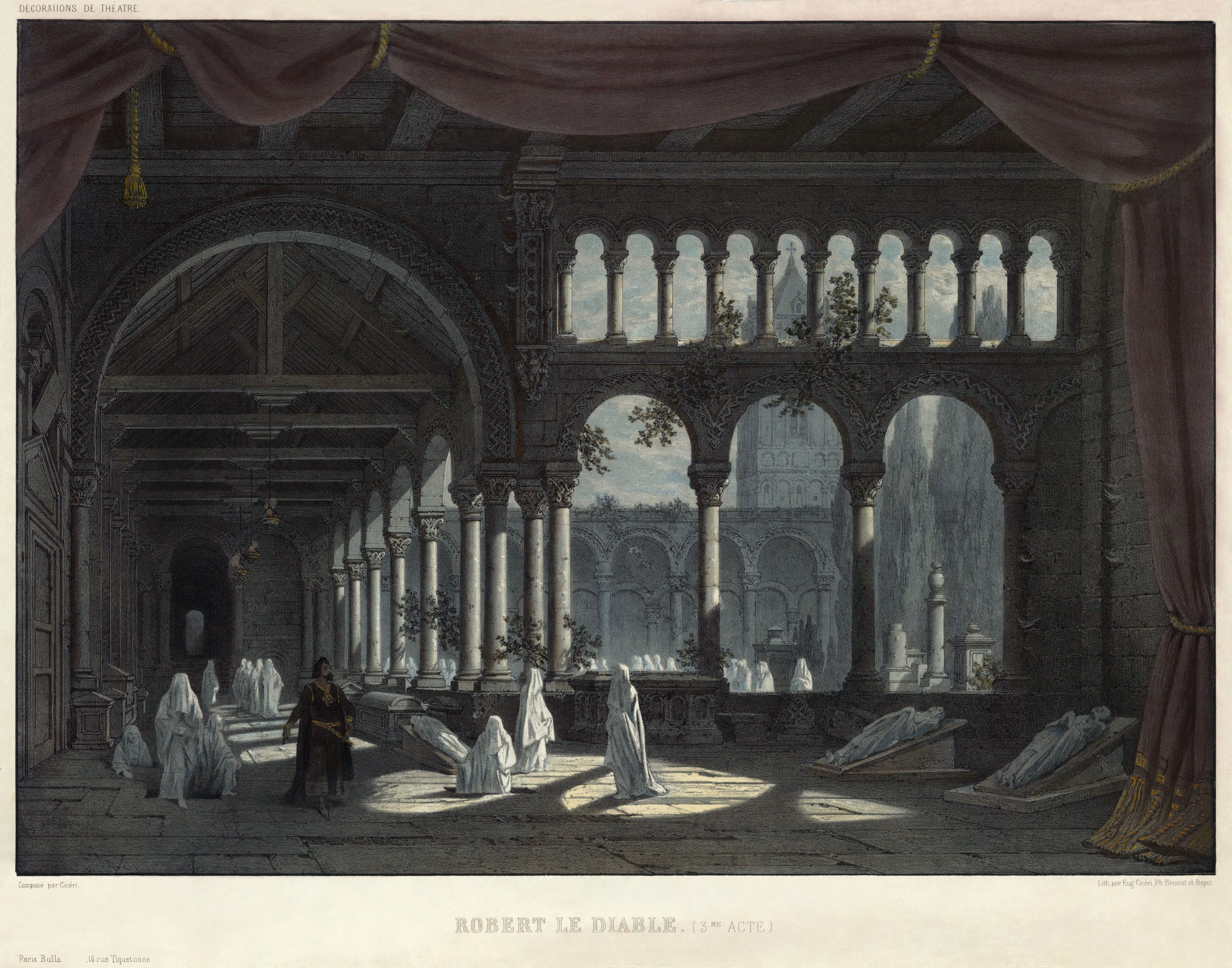 Ballet of the Nuns from Act III of the original production of Giacomo Meyerbeer's Robert le diablo